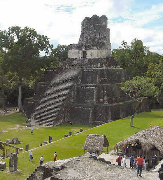 Tikal Maya Ruins Temple II on the archeological site Tikal